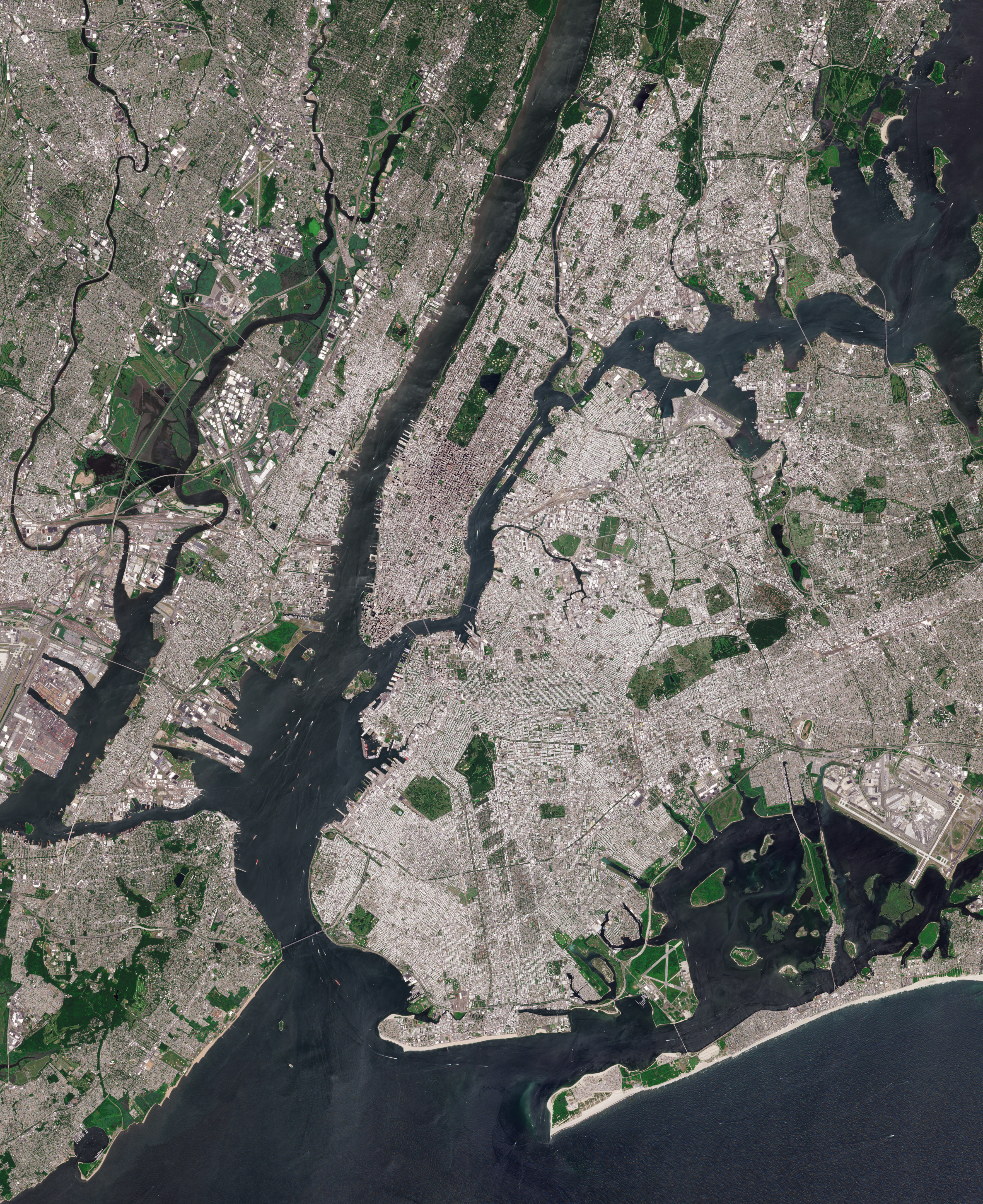 Date: 2018-07-07 Sensor: MSI on Sentinel-2A Resolution: 10m RGB Composites: True color, Band 4-3-2